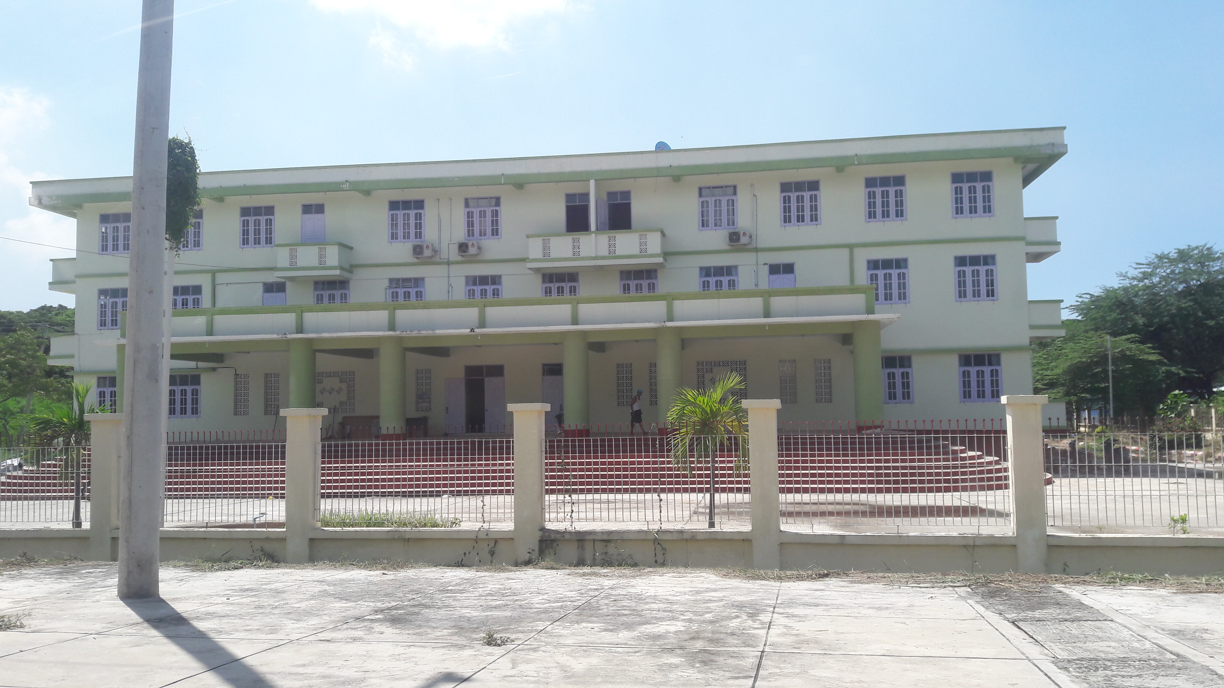 Guest House for foreign professors,guests,etc